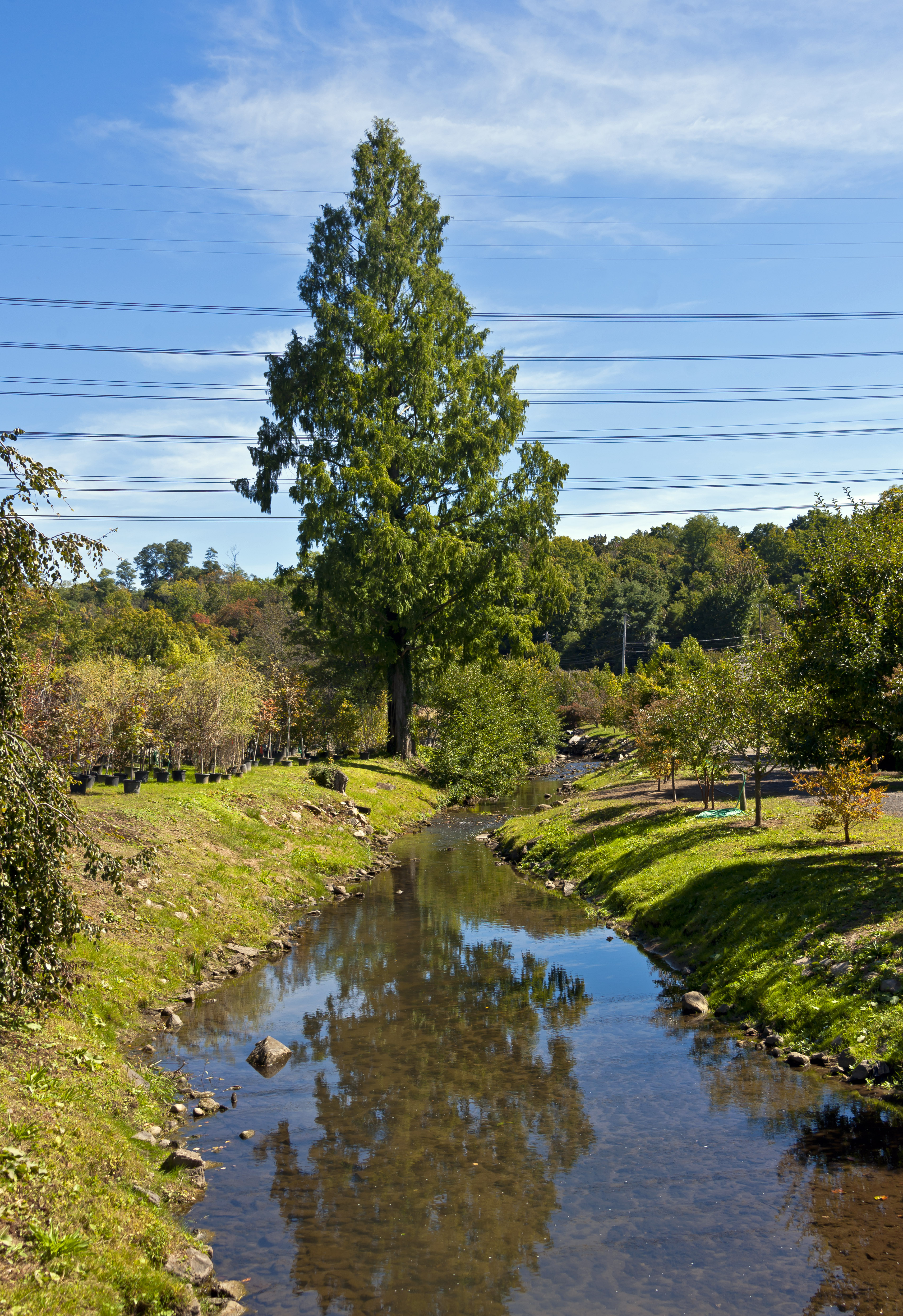 View upstream along the Saw Mill River at Rosedale Nurseries, just off NY 9A near Hawthorne